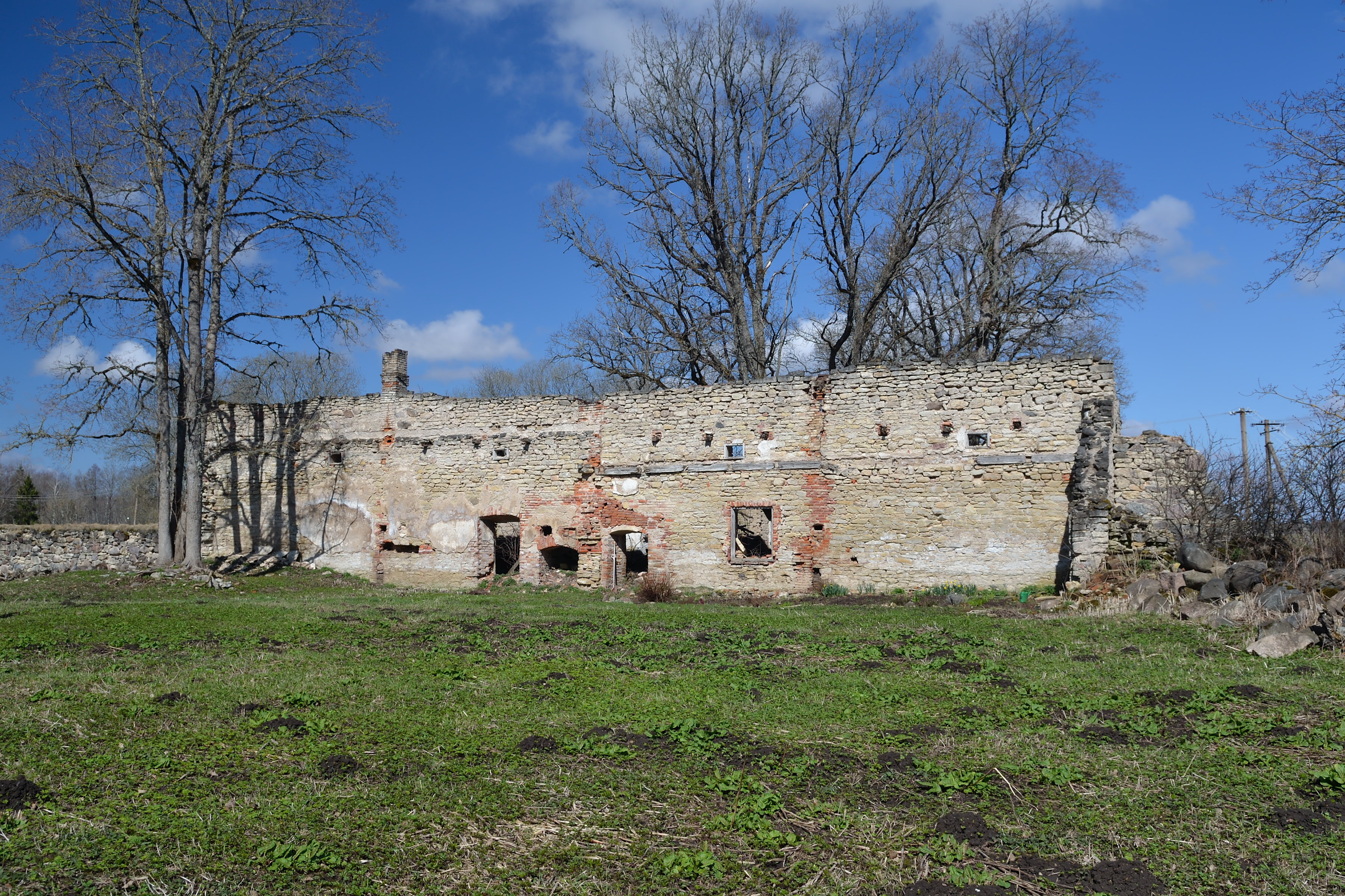 Esna manor greenhouse ruins